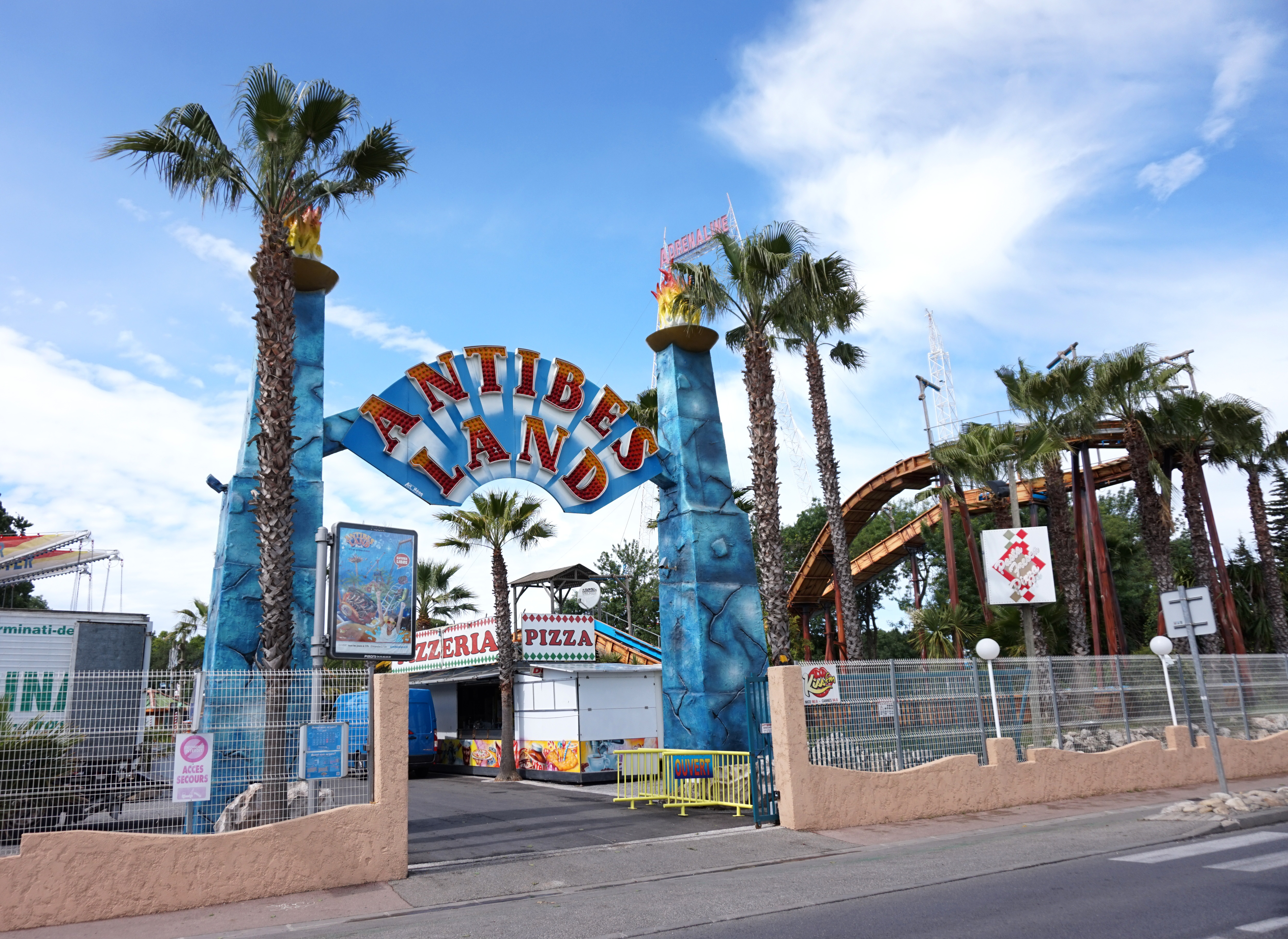 Antibes land.This photograph was taken with a Sony ILCE-5000